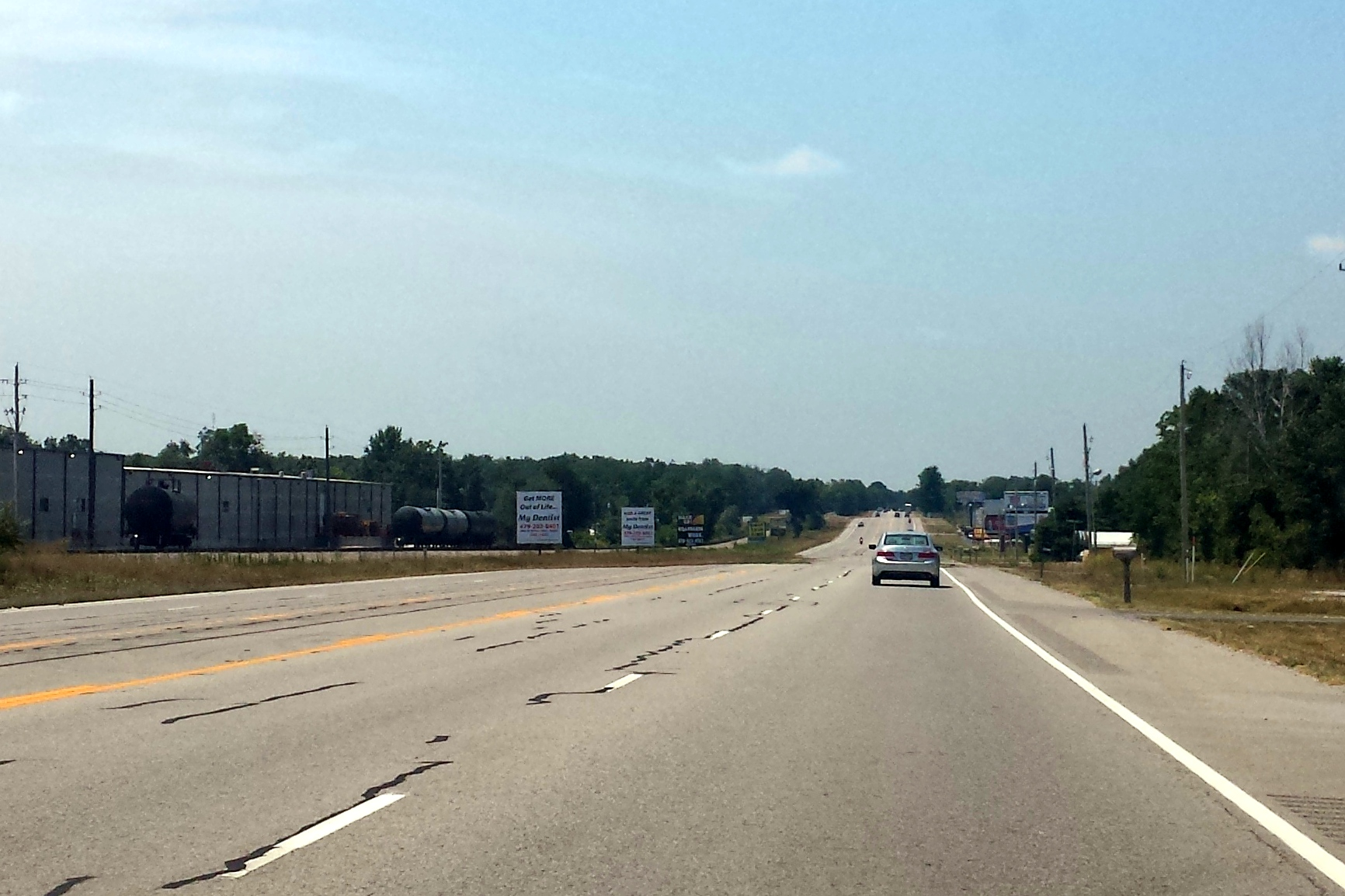 US 62 runs west in Avoca, Arkansas